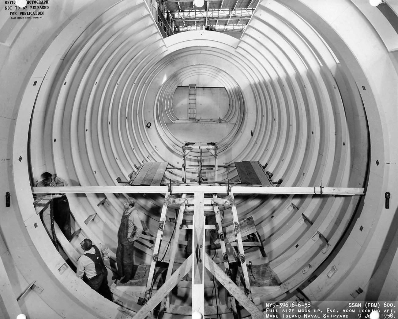 Full scale mock up of the engine room looking aft of the (SSBN-600) [later} Theodore Roosevelt (SSGN-600) at Mare Island on 9 June 1958.